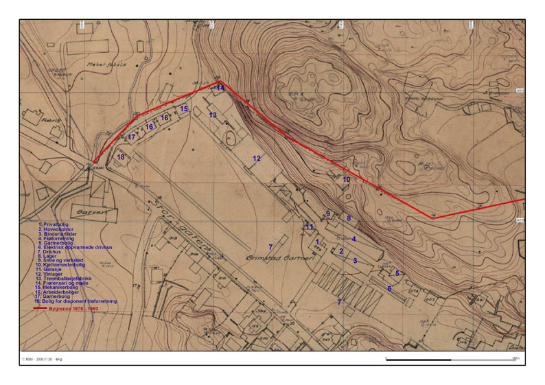 Grimstad Gartneri - Map 1920.